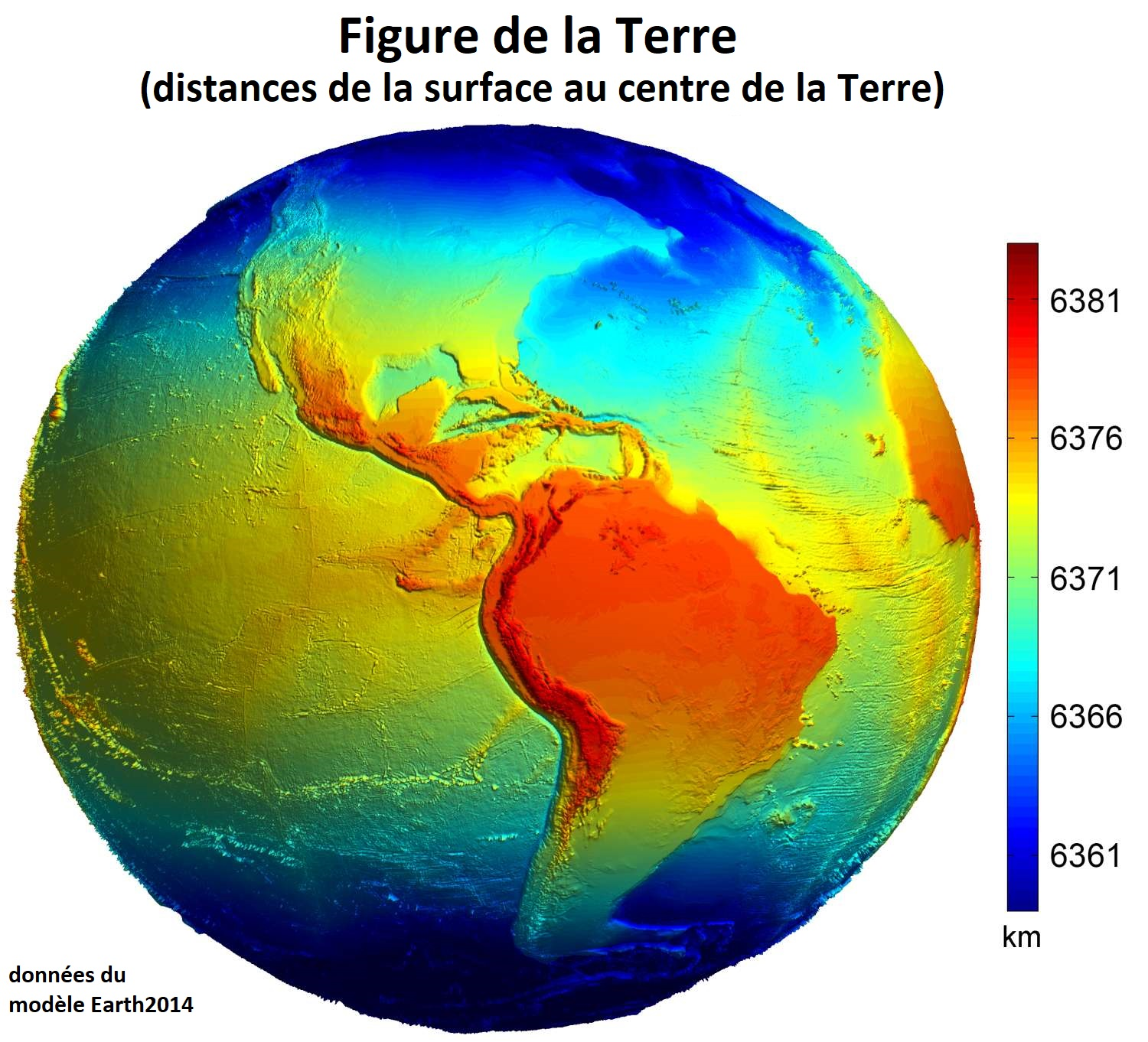 Earth shape, as given by the Earth2014 global relief model. Shown are distances between relief points and the geocentre. In French.